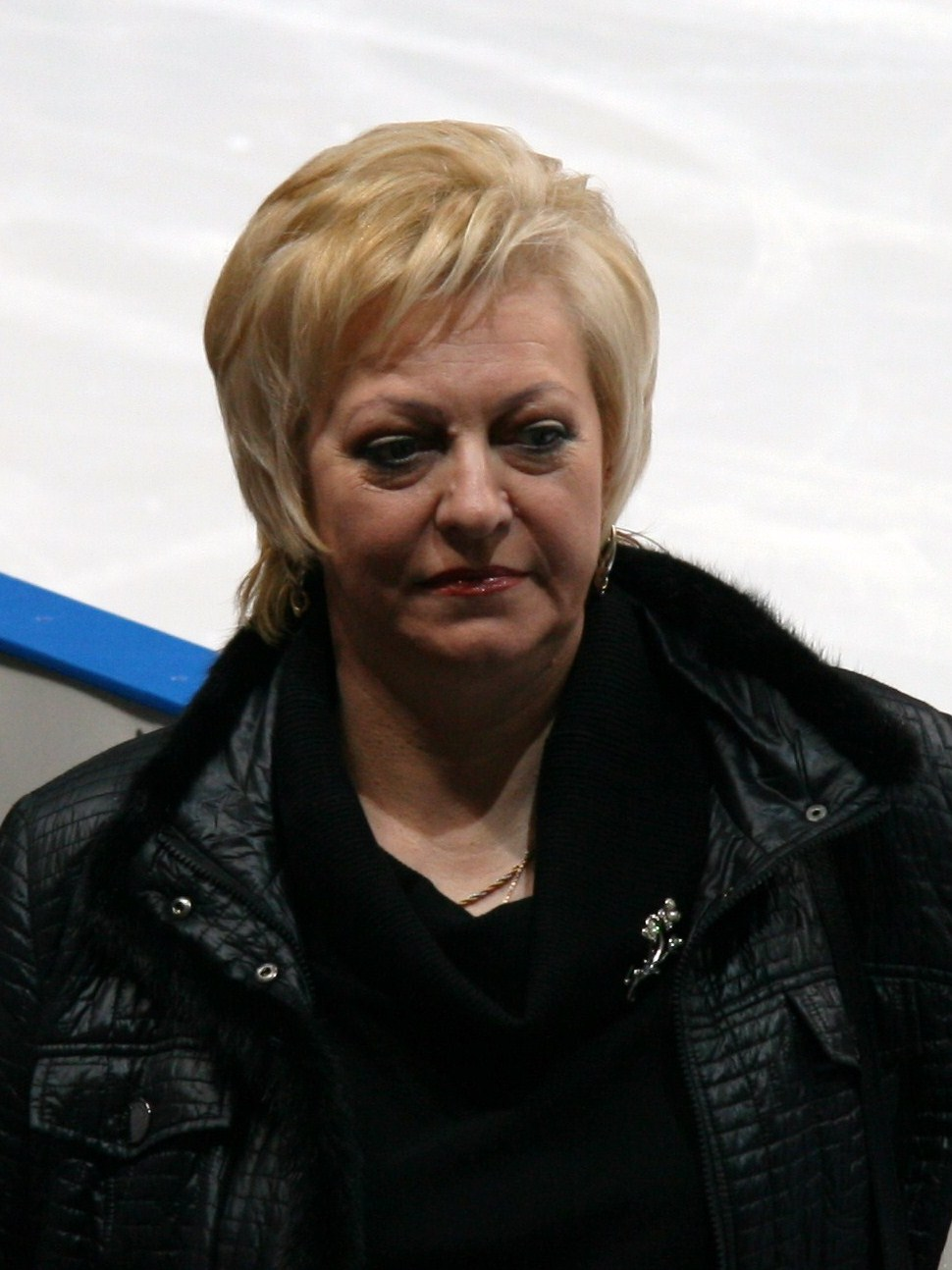 Svetlana Alexeeva at the 2010 Cup of Russia